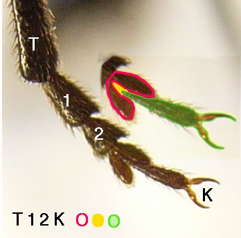 Front leg of Callidium violaceum T Tibia 1 Tarsus 1 2 Tarsus 2 K Claws red circeled Tarsus 3 solid yellow Tarsus 4 weak green circled green Tarsus 5